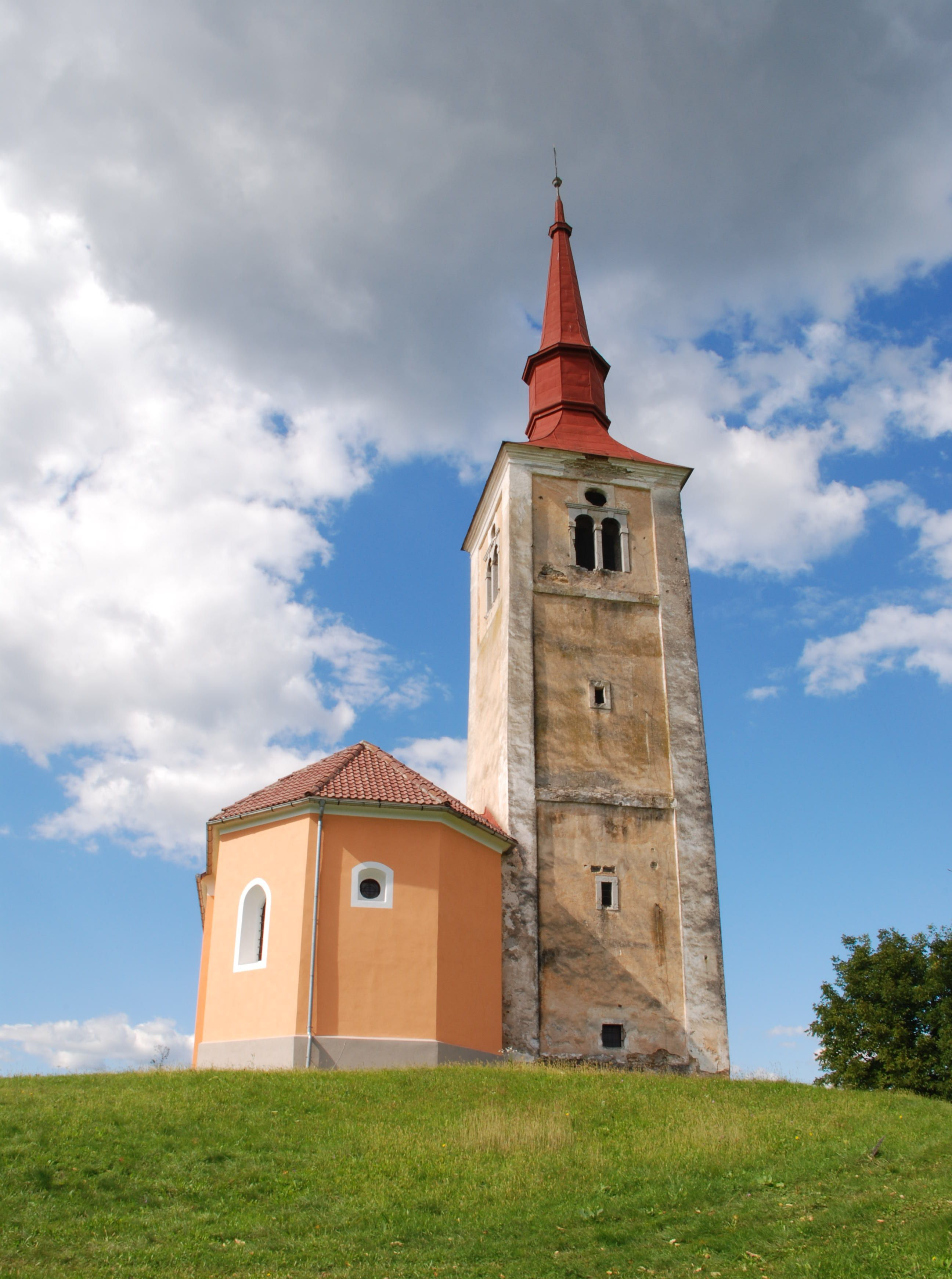 Hrastovica, St. Roch's Church. Built in 1661.